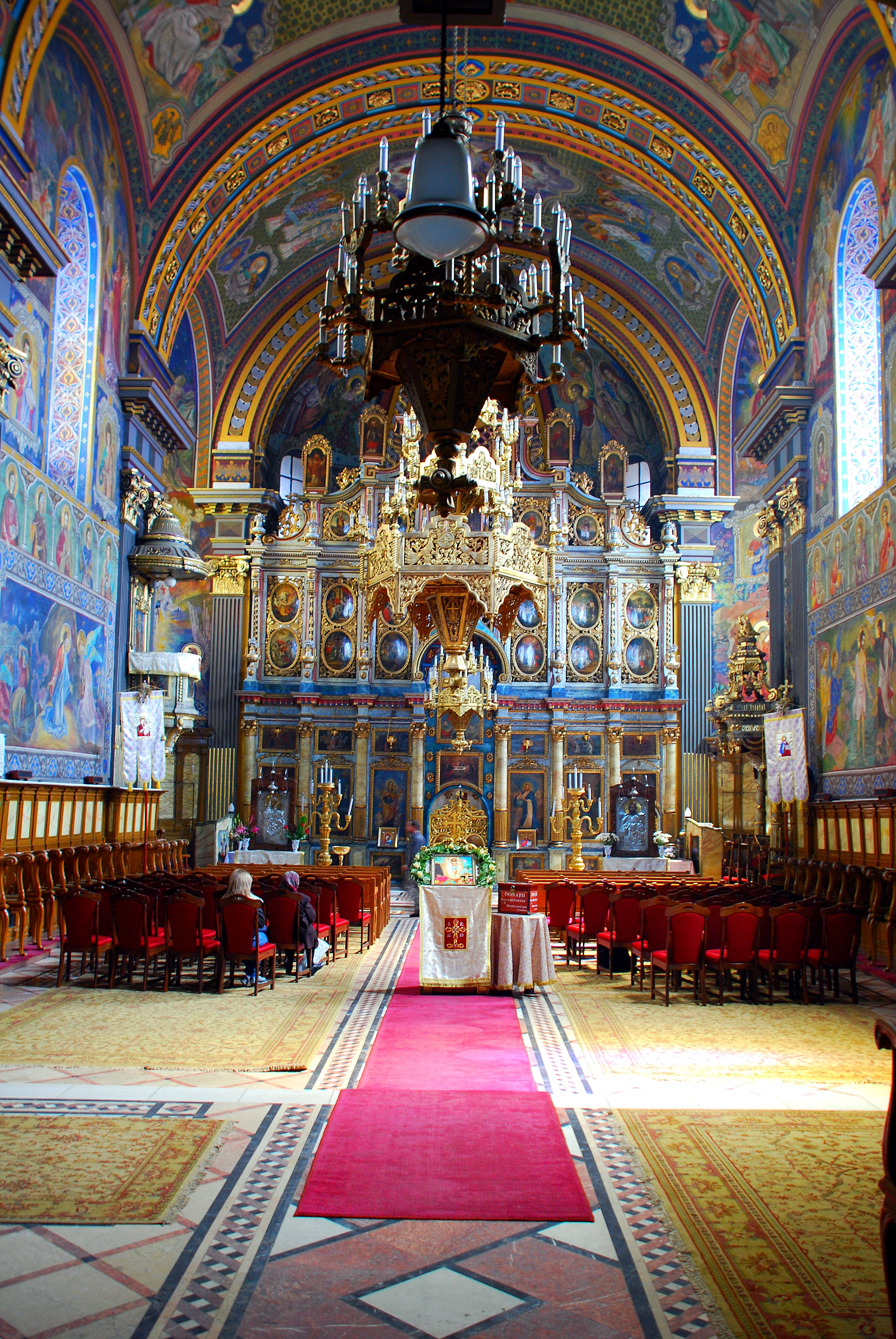 My photostream: My images in GOOGLE